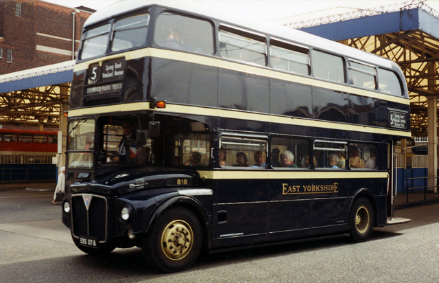 An ex-London Transport Routemaster bus (RM149), at the old bus station in Kingston upon Hull, in 1995 It is 818 (EDS 117A), ex-LT VLT 149.